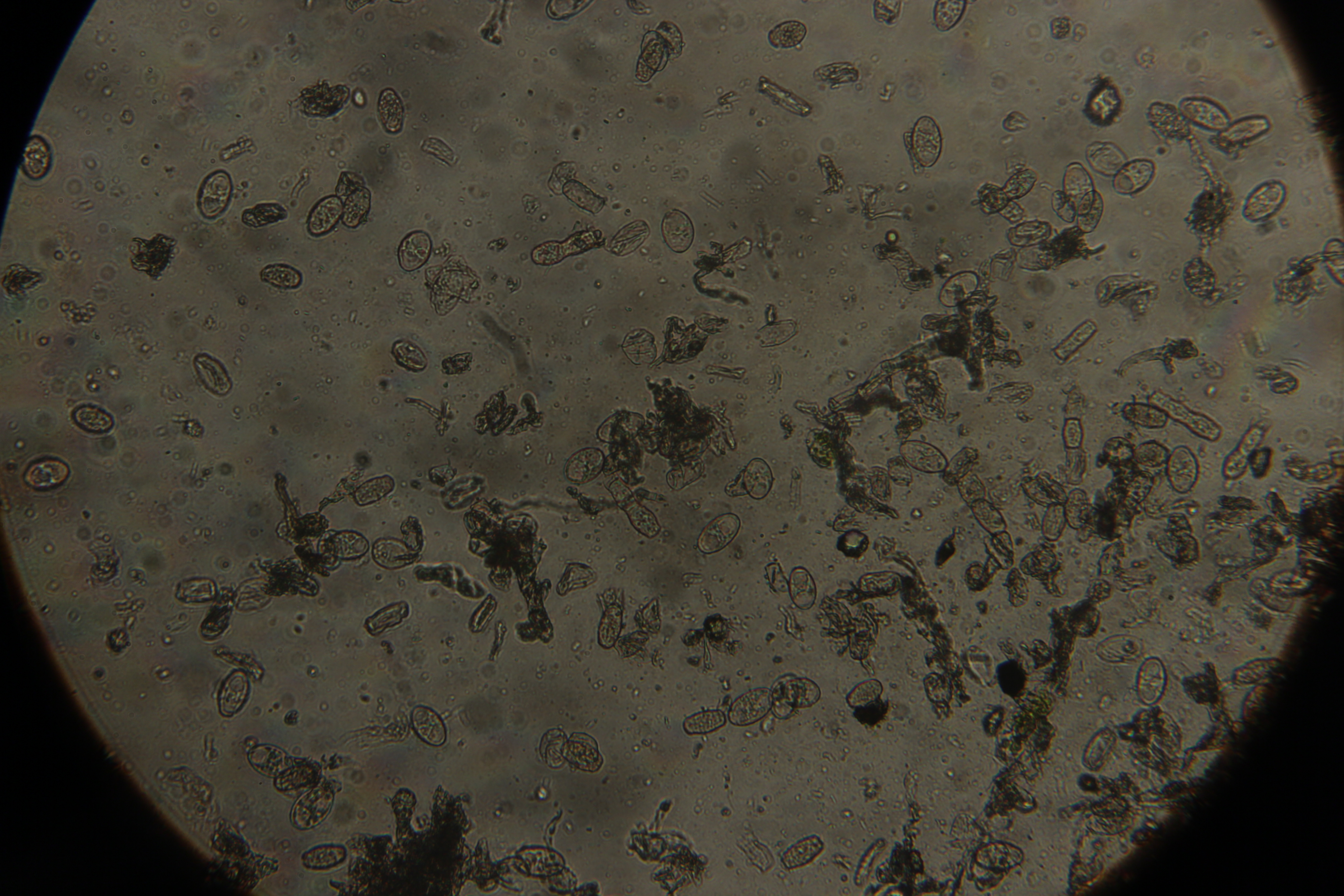 Neoërysiphe galeopsidis on Common Hemp-nettle - Galeopsis tetrahit